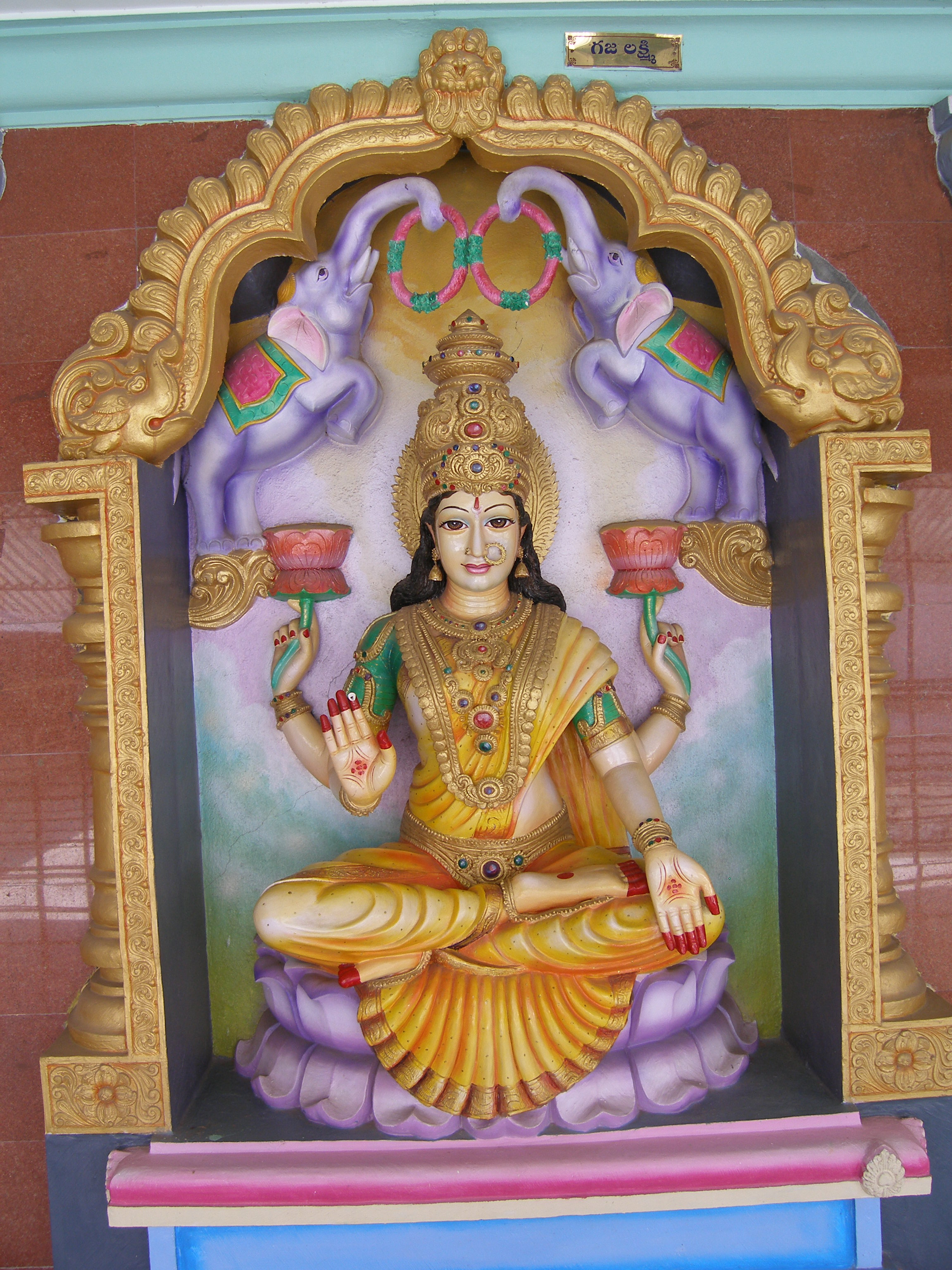 Gajalaxmi at Narayana Tirumala.